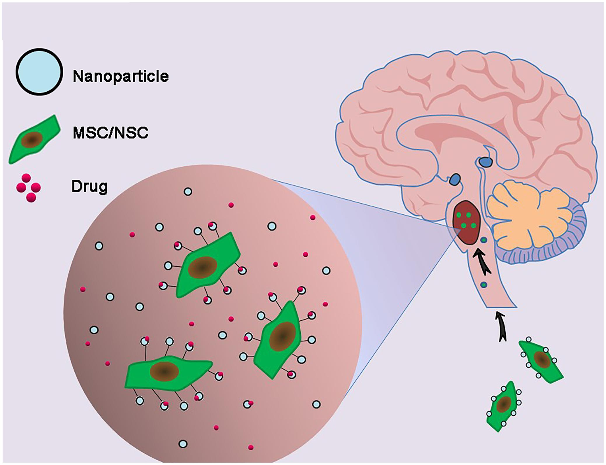 Combination of genetically engineered stem cells and nanotechnology in the treatment of DIPG. The glioma cells-homing behavior of neural stem cells (NSCs) and mesenchymal stem cells (MSCs) was utilized to deliver nanoparticles carrying drugs to DIPG tumor.